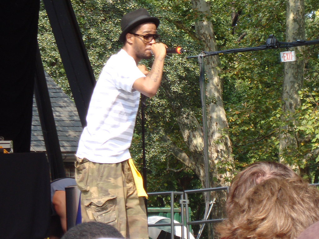 Kid Cudi performing at Central Park SummerStage